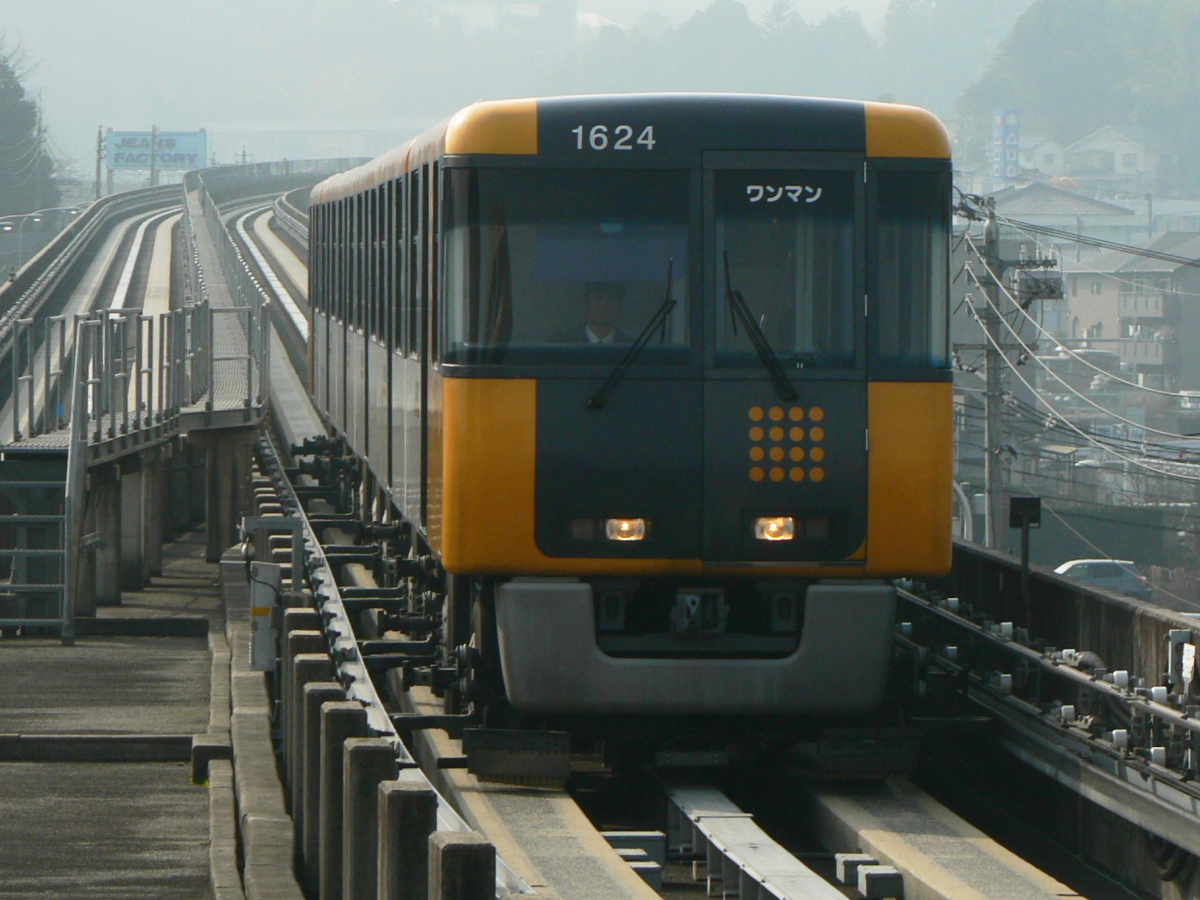 Astram Line 1000 series EMU set 24